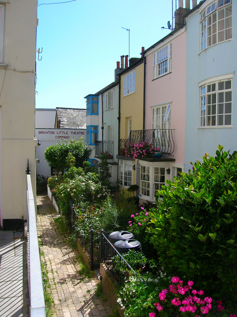 Clarence Gardens. Head east along Western Road and turn south into Clarence Square; as the road turns east Clarence Gardens occupies a small corner. Clarence Square was an early development from the 1800s onwards and was largely competed by the 1820s. At the end of this row is a small hall originally built as a chapel in 1830. Since then it has been an infants school (1852), Mission Hall (1884), an Art School (1899) and from 1940 onwards been home to the Little Theatre Company - Little as the capacity is only 80, making it the smallest theatre in Brighton. Click on the link to take you to the next page.